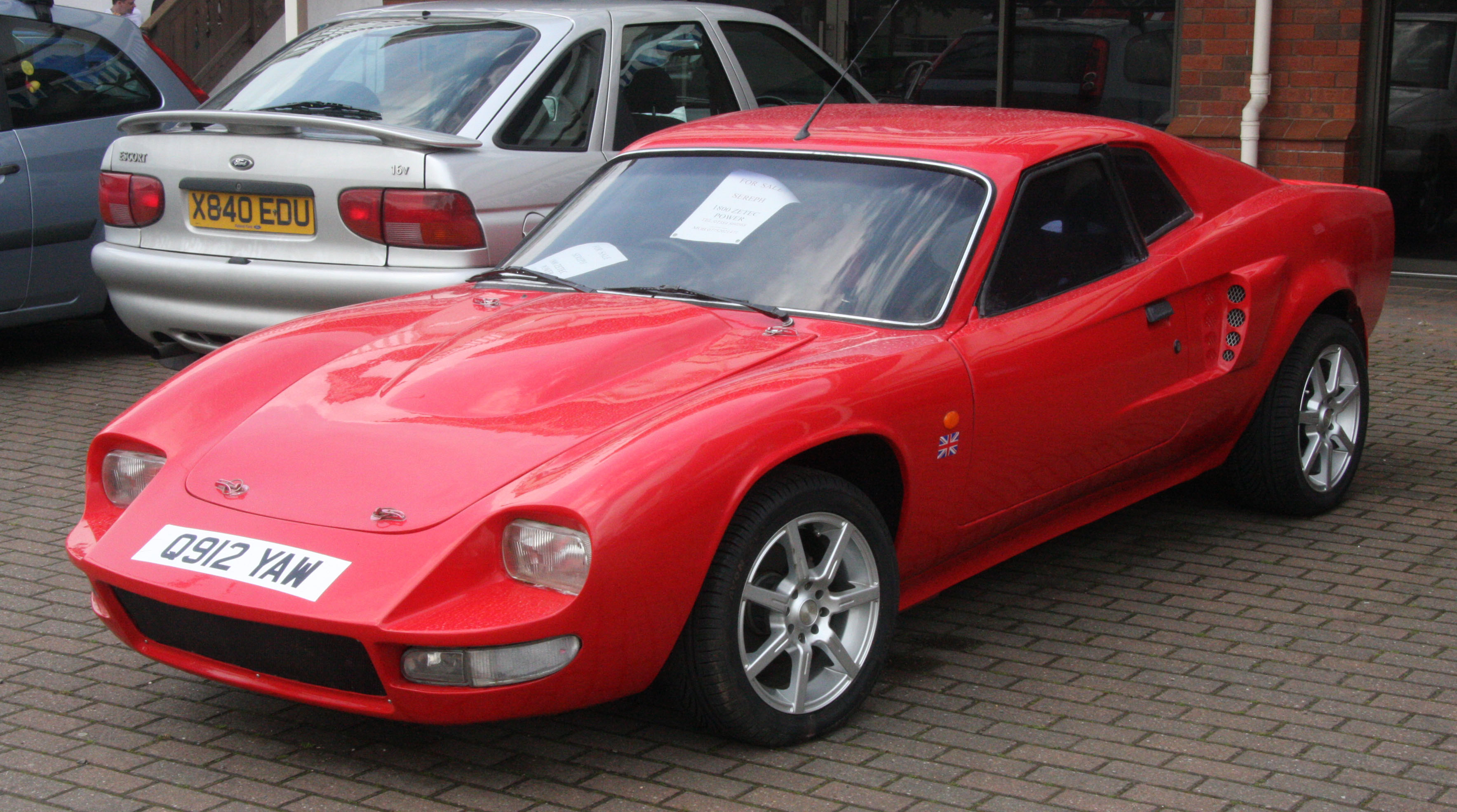 Seraph Kit car